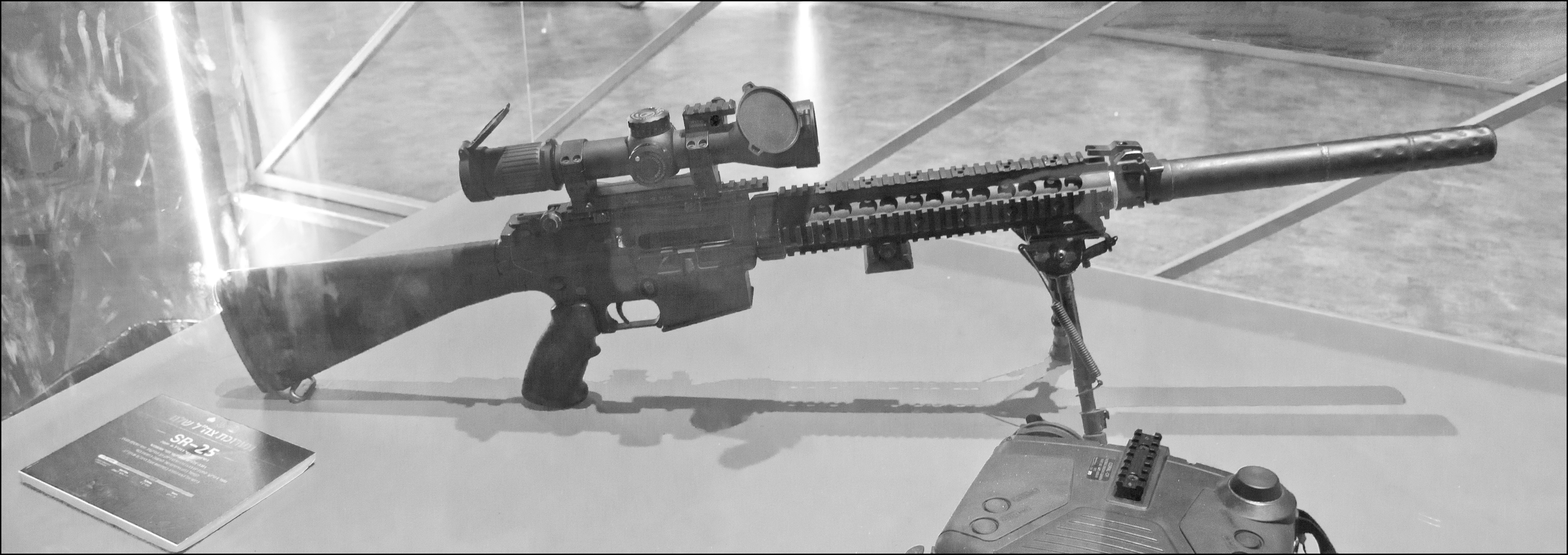 SR-25 Mk11 sniper rifle, Our IDF 70, Israel